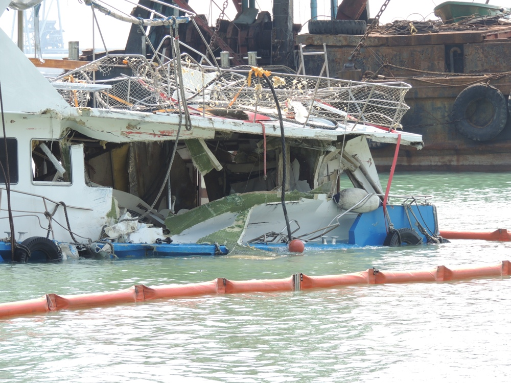 2012 Lamma Island ferry collision - Lamma IV